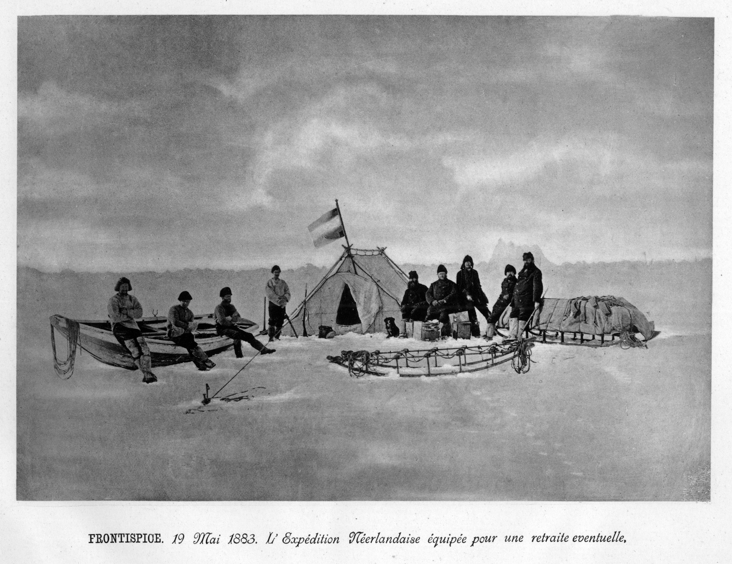 Plates/Figures from the publications of the first IPY (International Polar Year) 1887/88